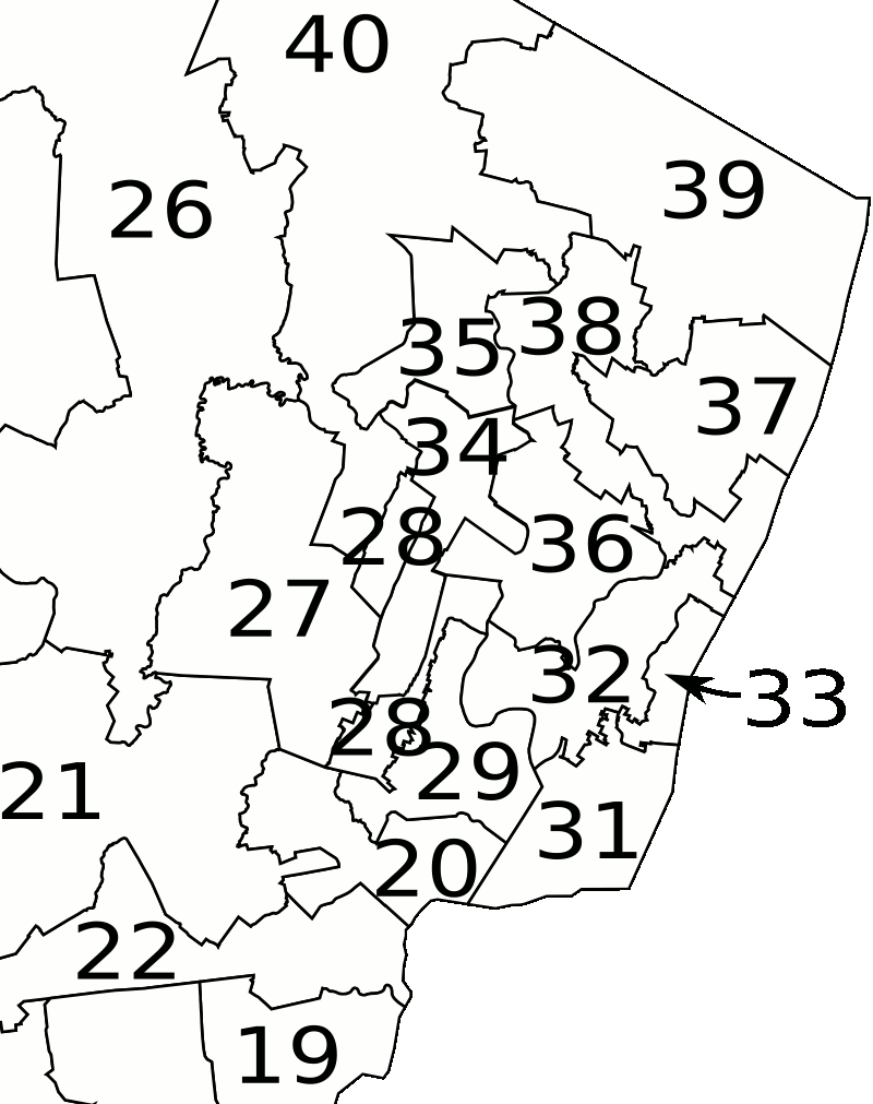 New Jersey state legislative districts (zoomed detail for northeast), based upon 2000 U.S. census, went into effect 2001. Sources: Outline maps came from: [1], believed ((PD-ineligible)). Converted to SVG, edited in Inkscape. Numbering as per [2] (PDF). SVG source code: Image:New_Jersey_Legislative_Districts_2001_numbered.svg